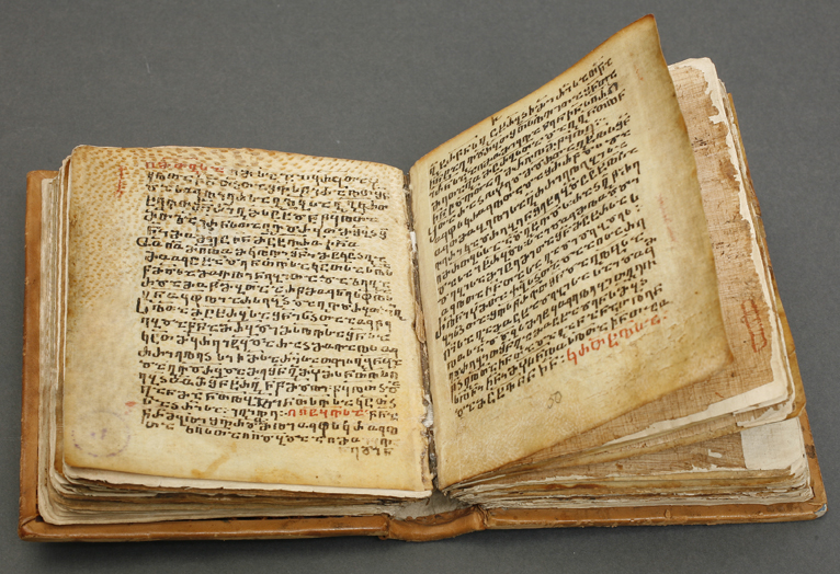 Iadgari in Georgian alphabet